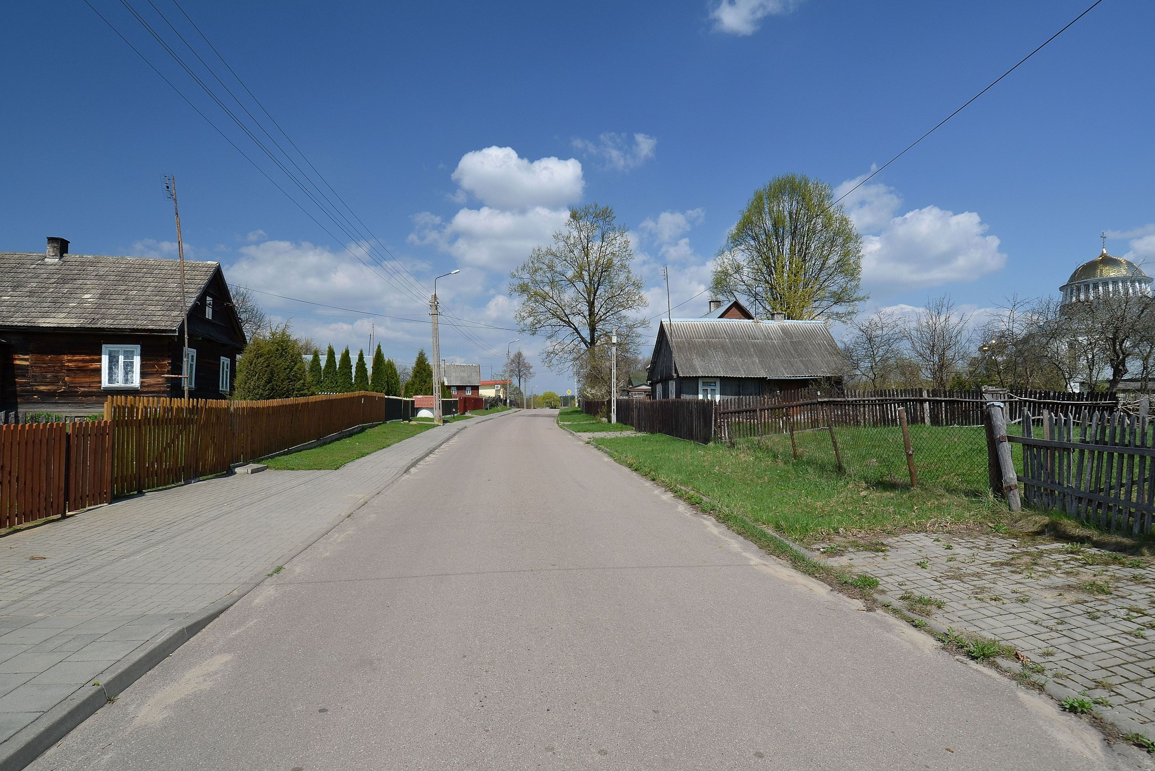 Jałówka (Michałowo commune)